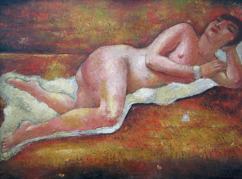 Sava Sumanovic "Morning" (Kiki), 1929.